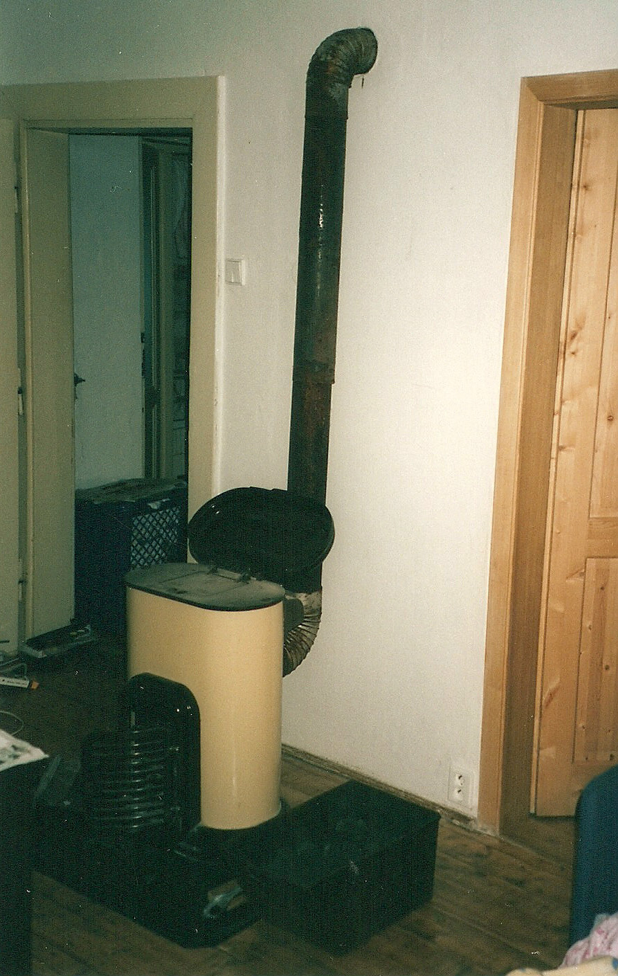 Czech coal stove "Club"